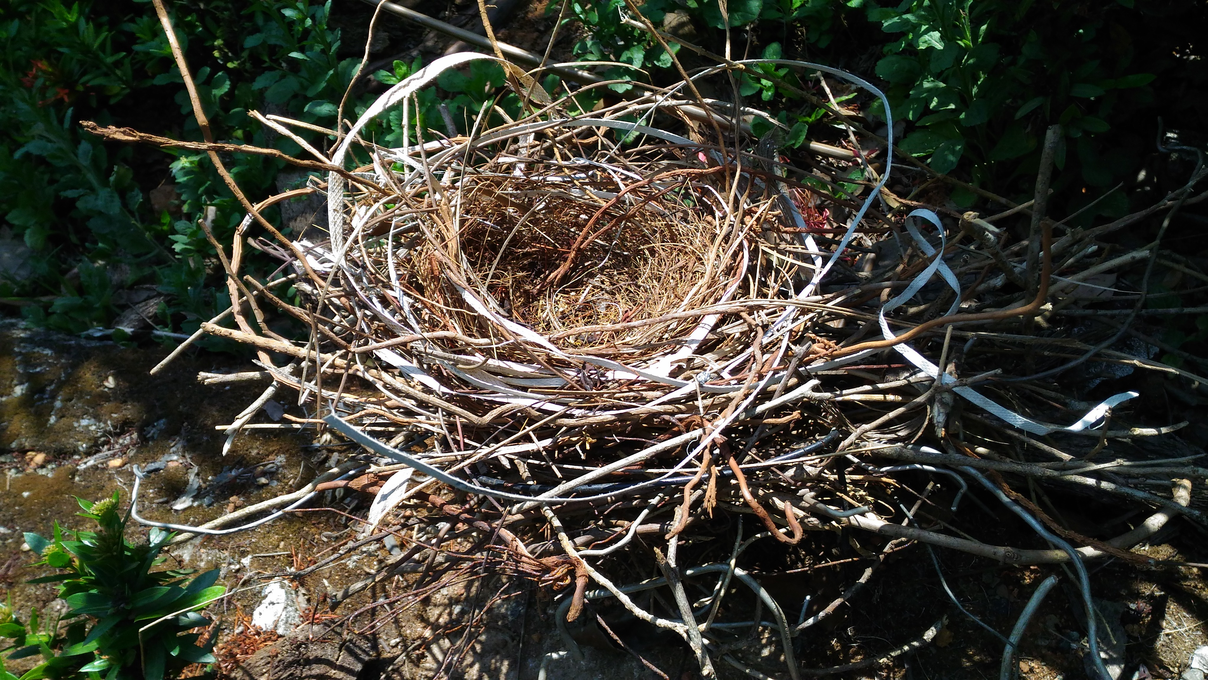 A nest of a crow. It is made of materials like twigs, electrical wires, metal strips, plastic pieces etc...